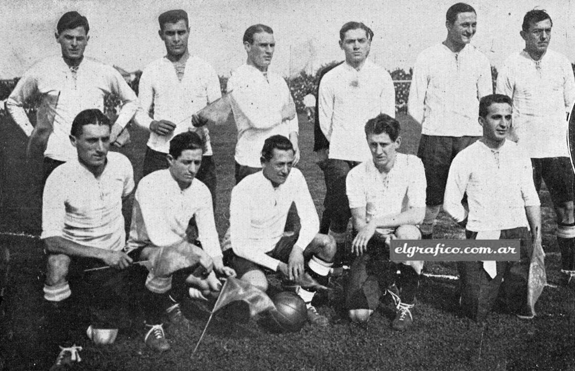 Team of Argentina that played in the South American Championship. Players are (up): Américo Tesoriere, Miguel Delavalle, Emilio Solari, Alfredo López, Florindo Bearzotti, Adolfo Celli; (down): Pedro Calomino, Julio Libonatti, Gabino Sosa, Raúl Echeverría, Jaime Chavín.